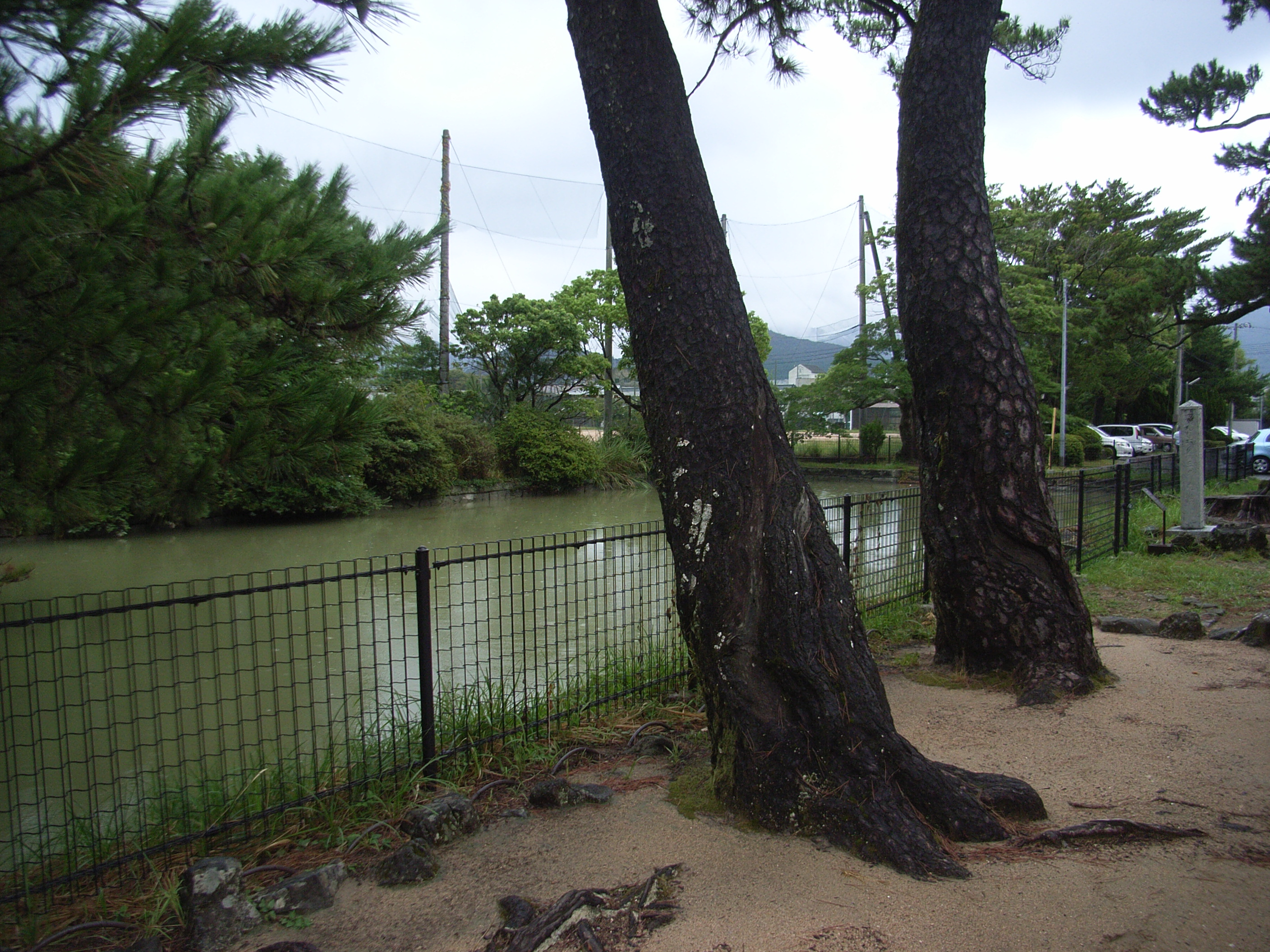 Hagi Meirinkan's swimming pool.